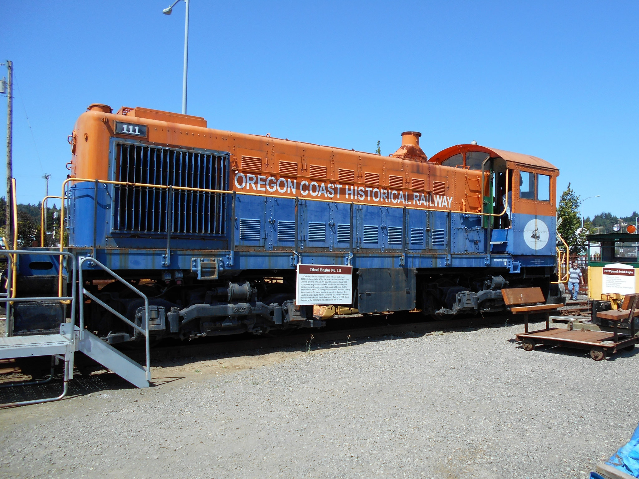 Alco S-2 switcher #111 at the Oregon Coast Historical Railway museum in October 2015. It was built in 1949 for the Longview, Portland & Northern Railway.